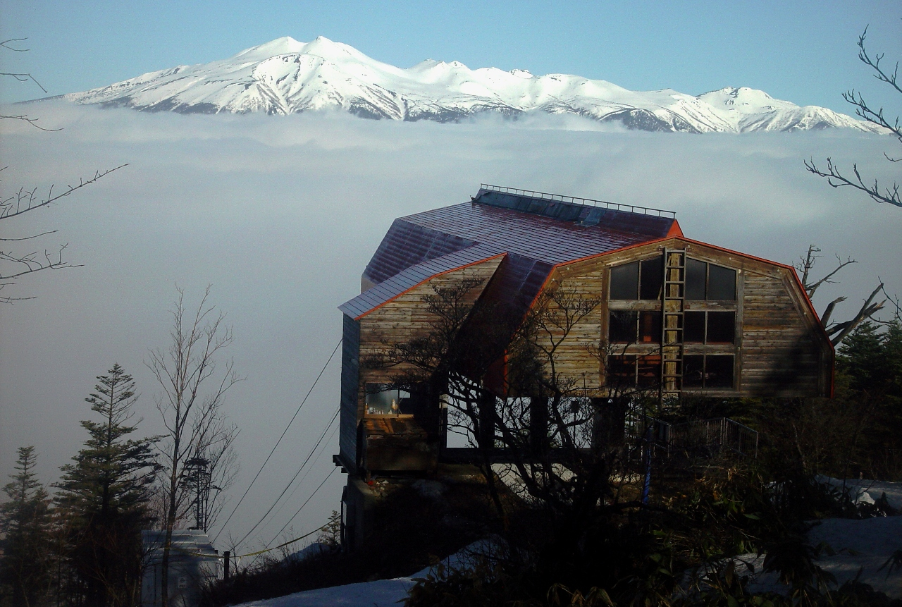 Mount Norikura from Nomugitoge ski resort in Nagano pref., Japan.